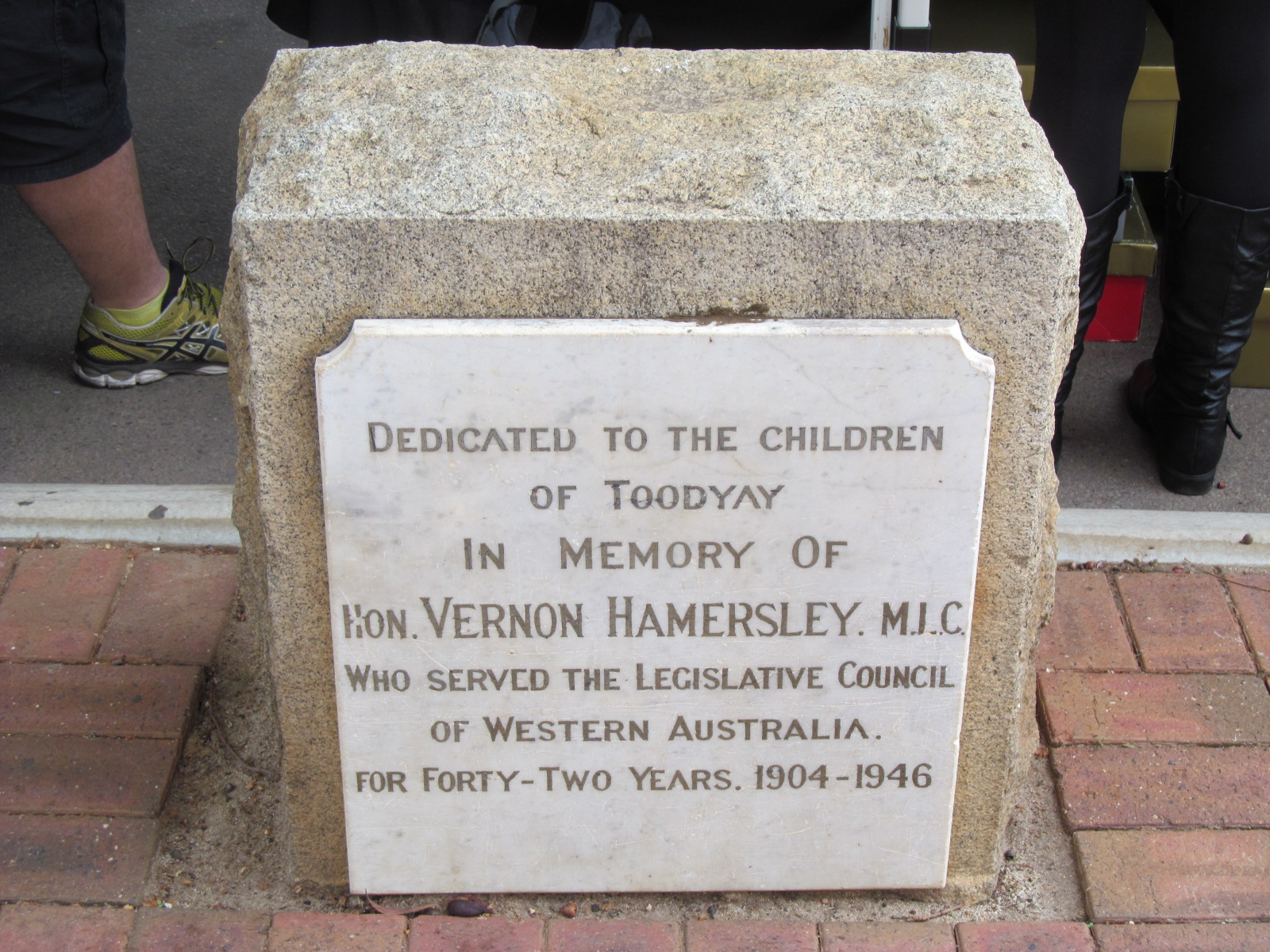 Plaque in Stirling Terrace, Toodyay, honouring long-serving Member of the Western Australian Legislative Council Vernon Hamersley.